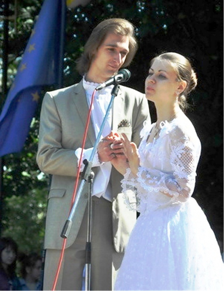 Фабула. "Графиня Водзинська"